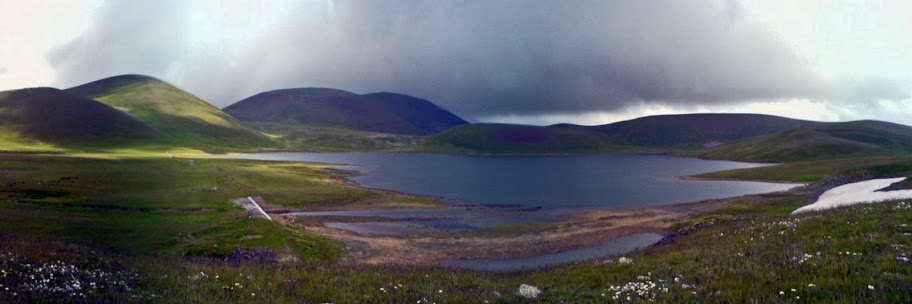 Lake Aknalich aka Ghanigel